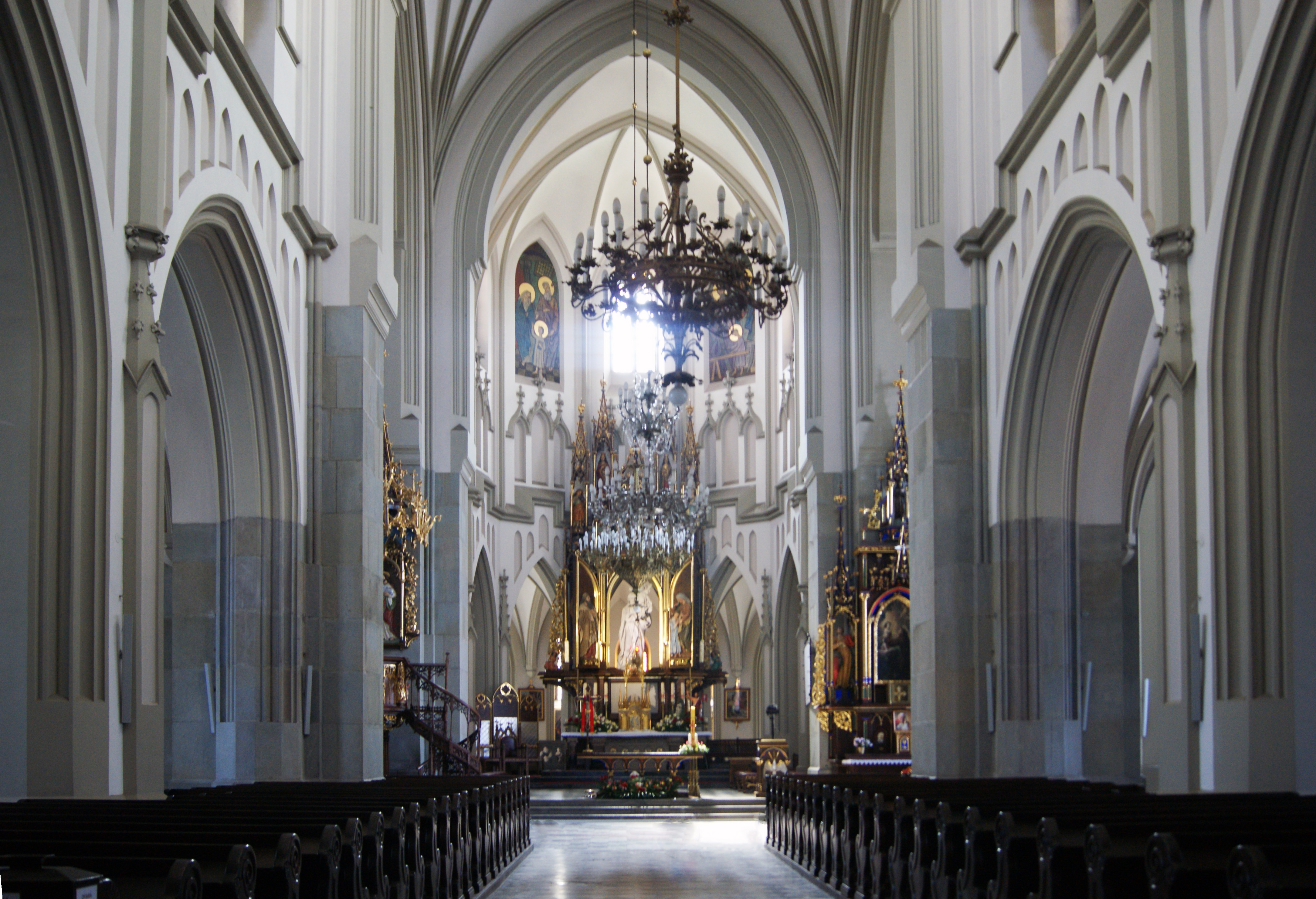 Church of St Joseph (interior), 2 Zamoyskiego street, Podgorze, Krakow, Poland